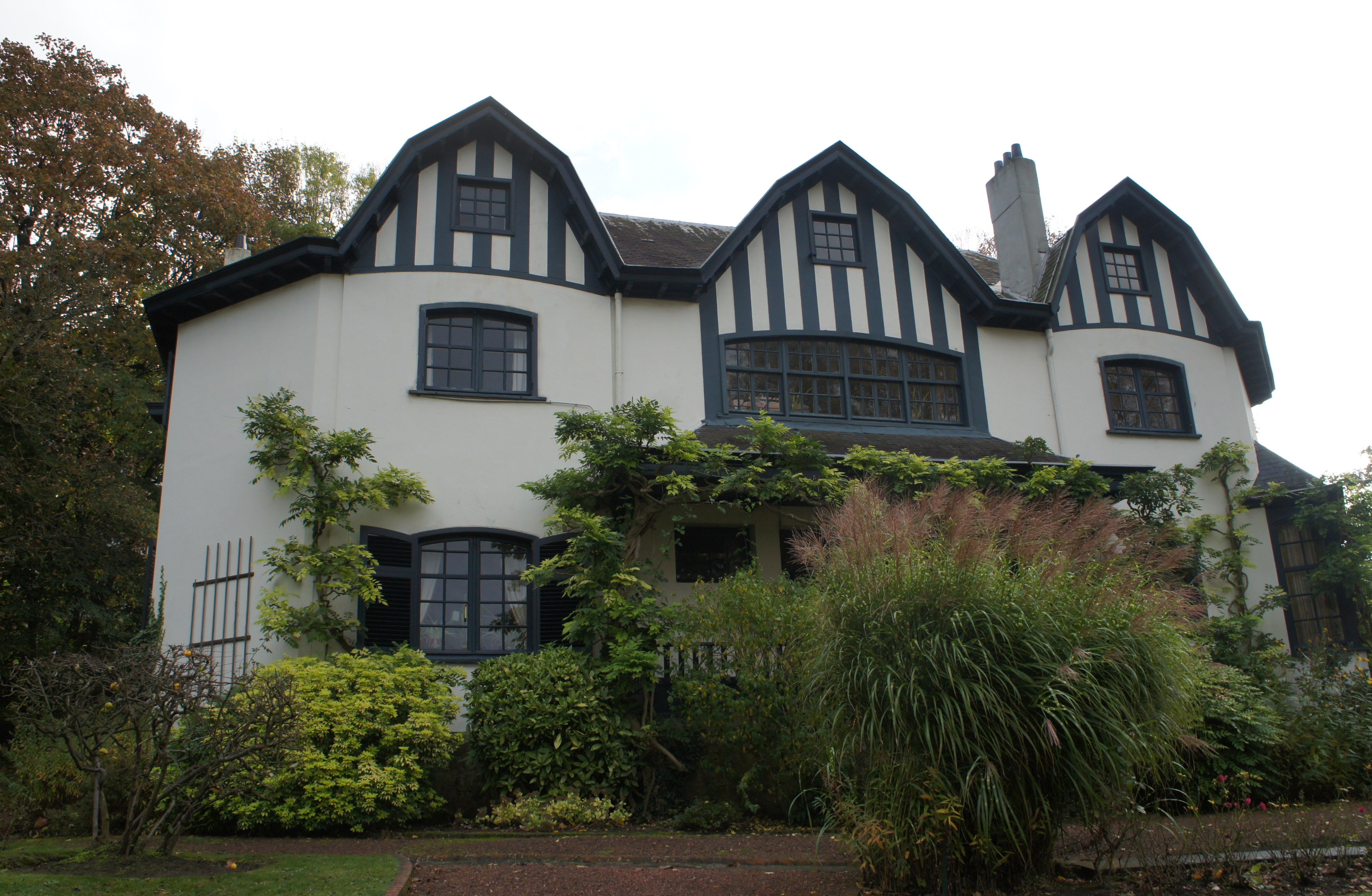 Villa Bloemenwerf Avenue Vanderay 102, 1180 Uccle By Henry Van de Velde